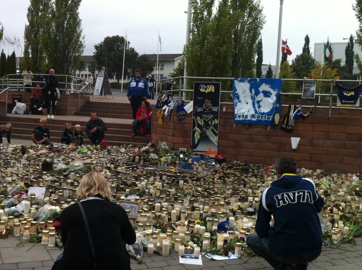 Stefan Liv is honored outside Kinnarps Arena.